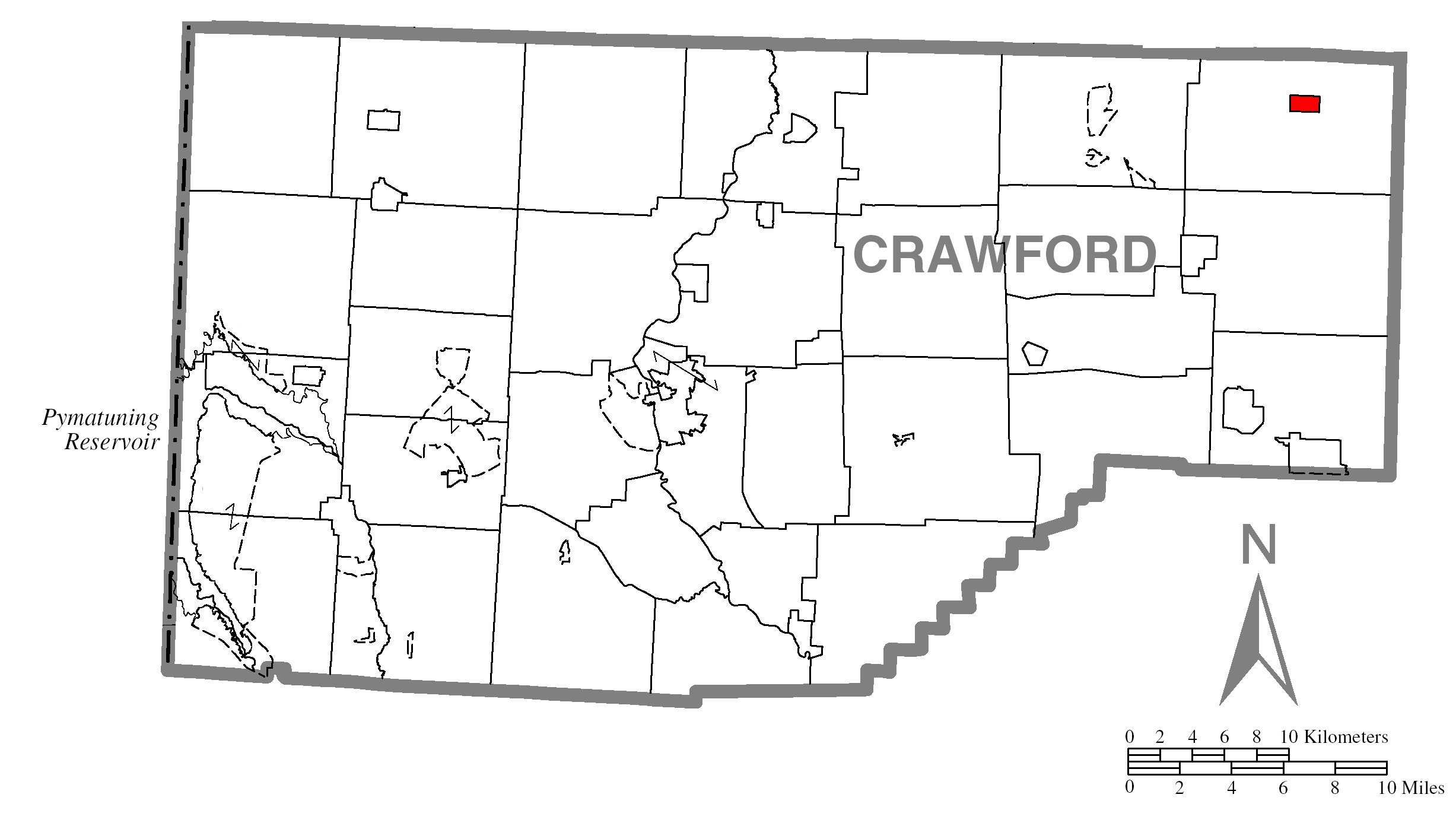 Map of Crawford County higlighting Spartansburg.